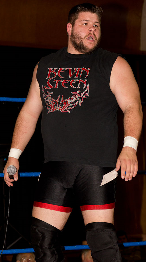 Professional wrestler Kevin Steen in 2011.